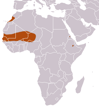 Mauritanian Shrew (Crocidura lusitania) range